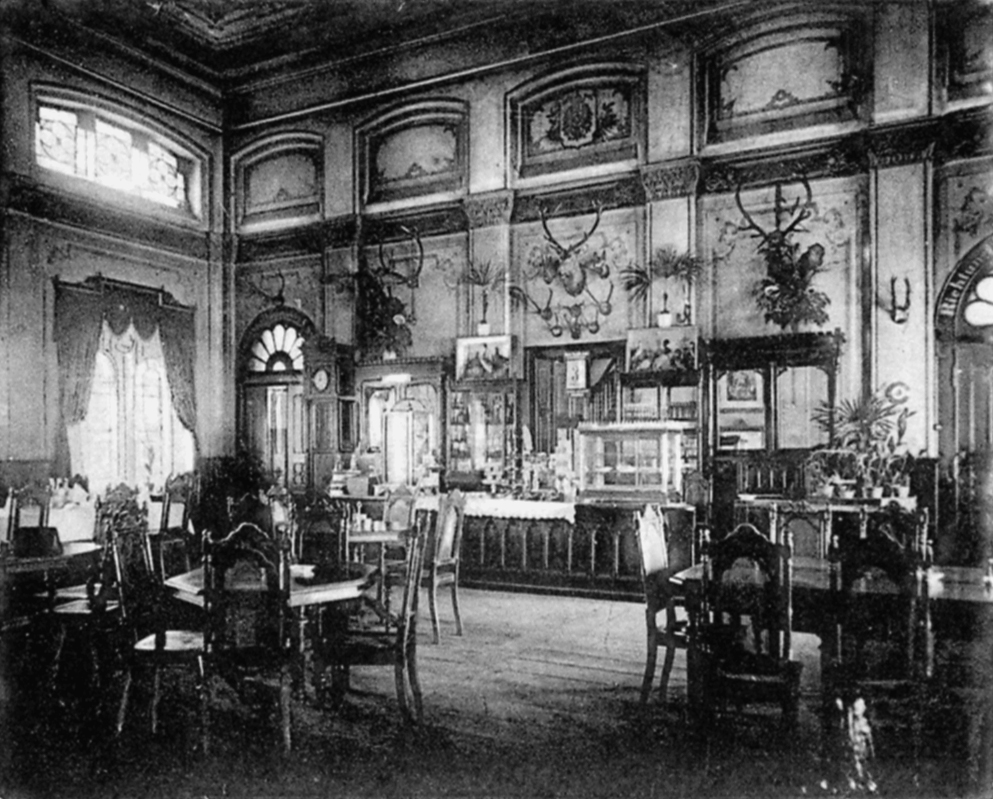 First-class and second-class waiting room in the railway station in Nordstemmen about 1914